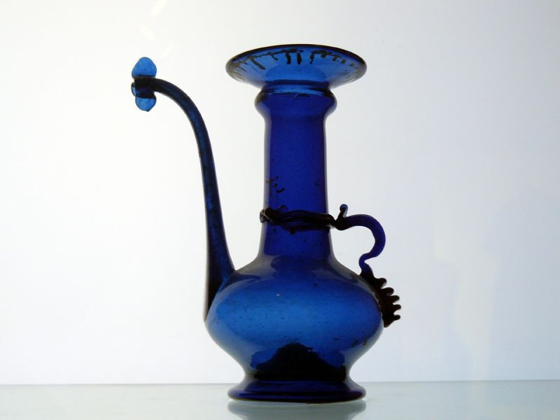 Ewer, 18th century. Blue glass, mold blown. Brooklyn Museum, Gift of Mrs. Frederic B. Pratt, 46.63.3. Wikipedia Loves Art at the Brooklyn Museum This photo of item # [1] at the Brooklyn Museum was contributed under the team name "trish" as part of the Wikipedia Loves Art project in February 2009. Brooklyn Museum The original photograph on Flickr was taken by Trish Mayo—please add a comment to the original Flickr page whenever a use has been made on Wikipedia or another project. Project galleries on Flickr: this institution, this team